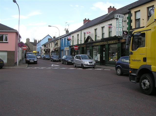 Main Street, Coalisland Looking west